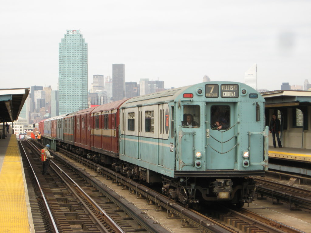 The Train of Many Colors, a collection of preserved R12-R33 subway cars, makes a run to Shea Stadium, and is running on the #7 Express line passing through the 40 Street-Lowery Street station. The occasion for the run is to celebrate the final Opening Day for the New York Mets at Shea Stadium.In order, from the leading car: R33WF 9306 (original livery) R15 6239 (original livery) R17 6609 (original livery) R12 5760 (original livery) R33ML 9068 (kale green) R33ML 9069 (tuscan red) R33ML 9010-9011 (two-tone gray with silver stripes) R33ML 9016-9017 (original livery)